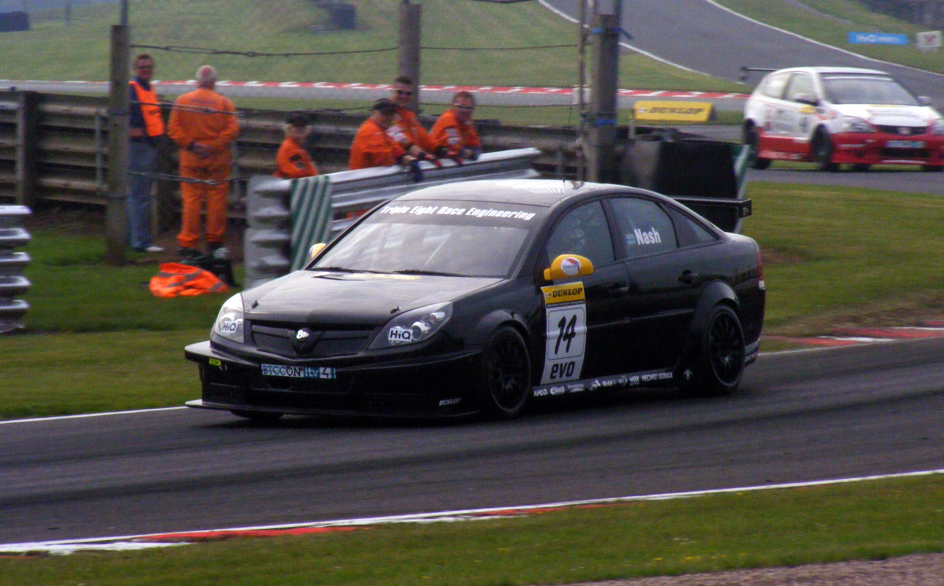 James Nash at Oulton Park in the 2010 British Touring Car Championship. Original description from flickr: James Nash (44)